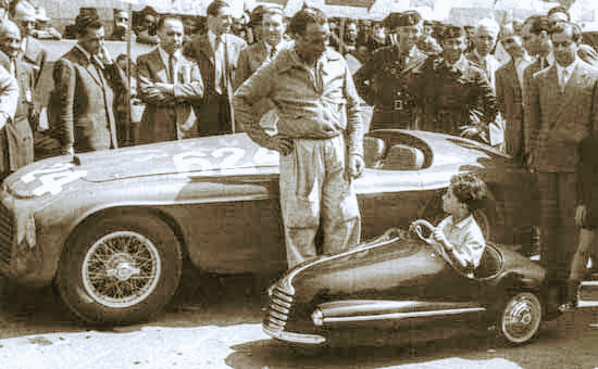 Entry #624 and WINNER of Mille Miglia (race in Italy) on 24 April 1949 was this 1949 Ferrari 166 MM Touring barchetta s/n 0008M driven by Clemente Biondetti and Ettore Salani of the Scuderia Ferrari team, here talking to a boy.[1][2]